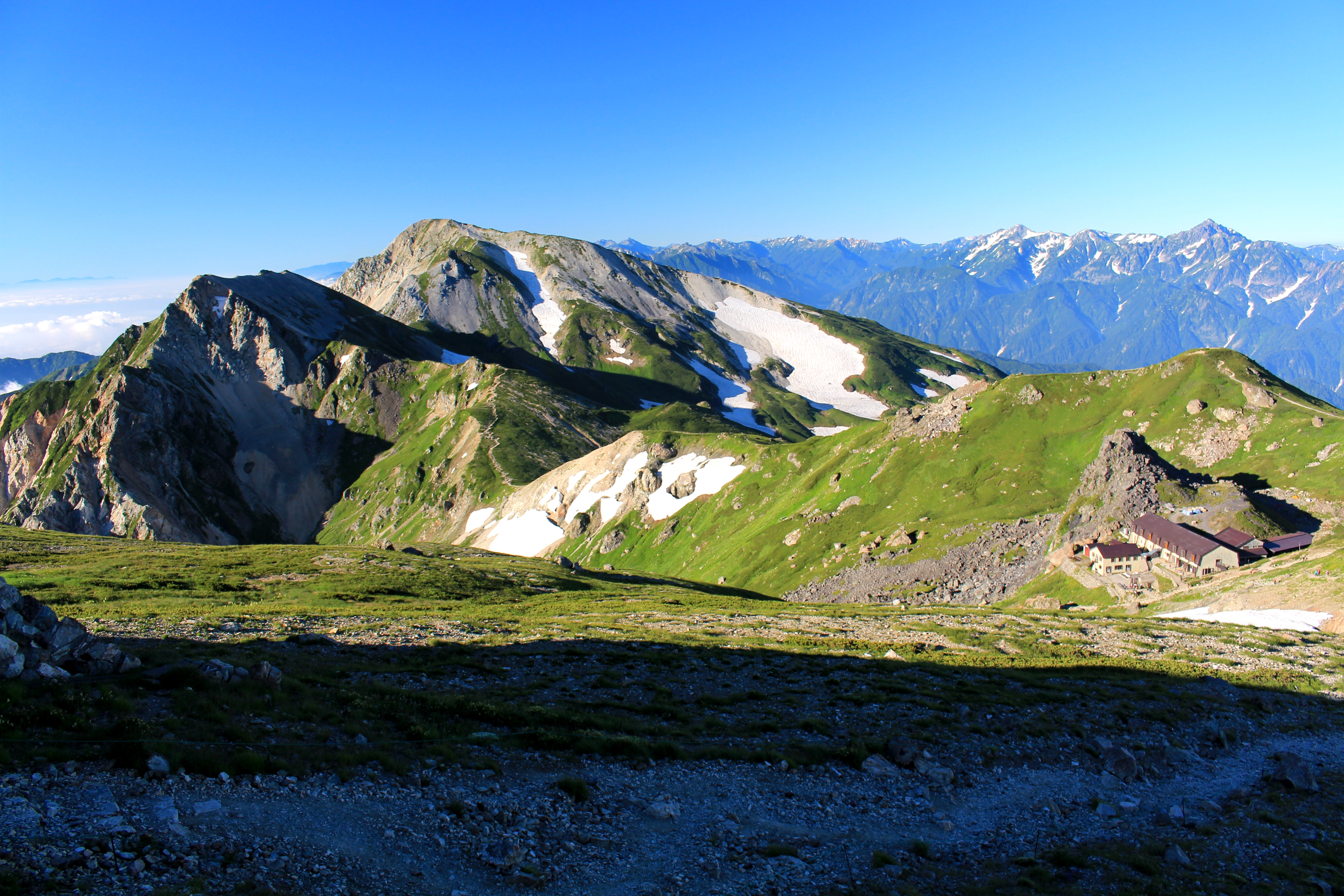 Mount Shakushi, Mount Shiroumayari, Mount Raru and Hakubadake Chojoshukusha seen from Mount Shirouma, in Ushirotateyama Mountains of Hida Mountains, Japan.